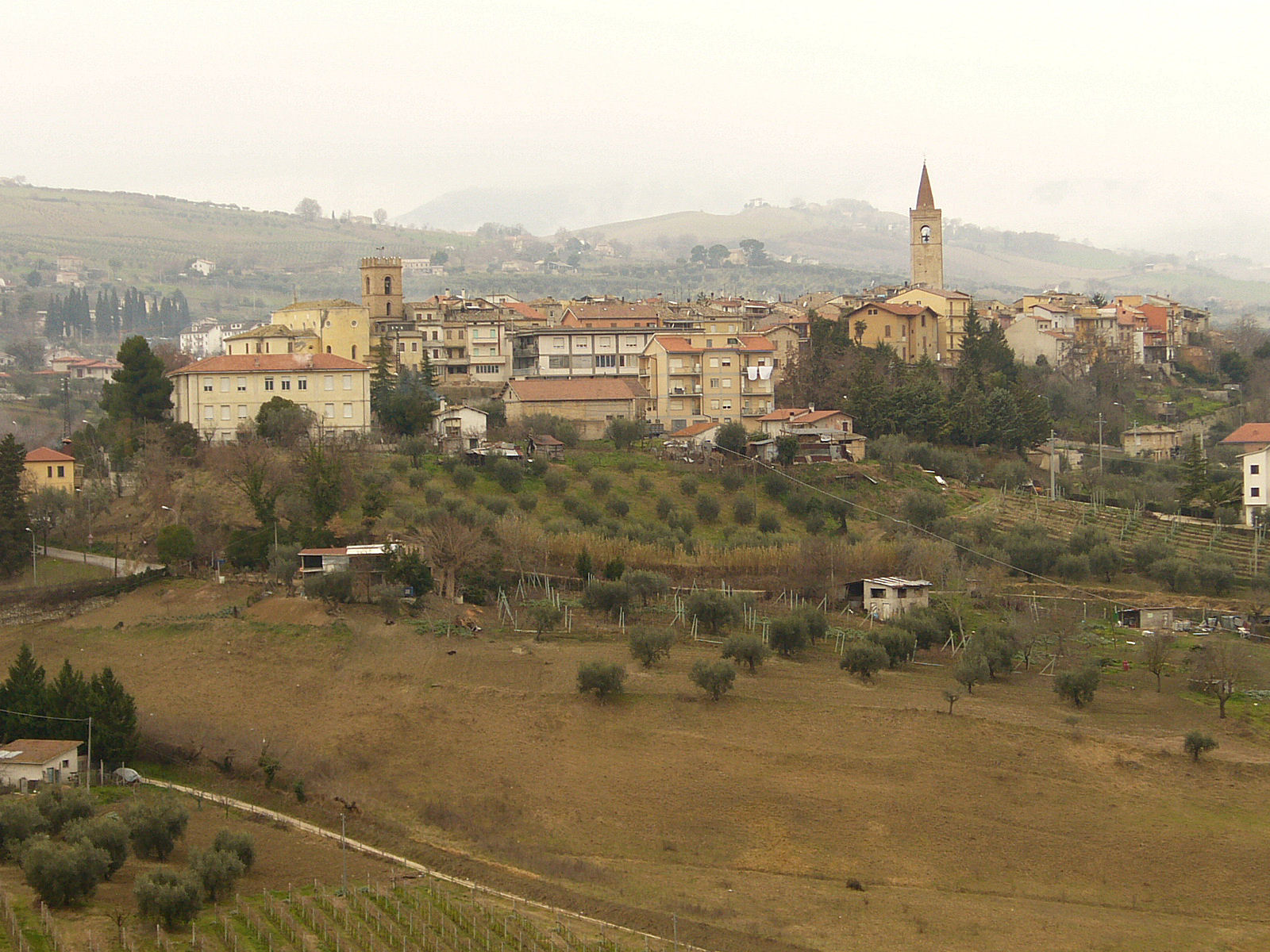 Appignano del Tronto in winter.